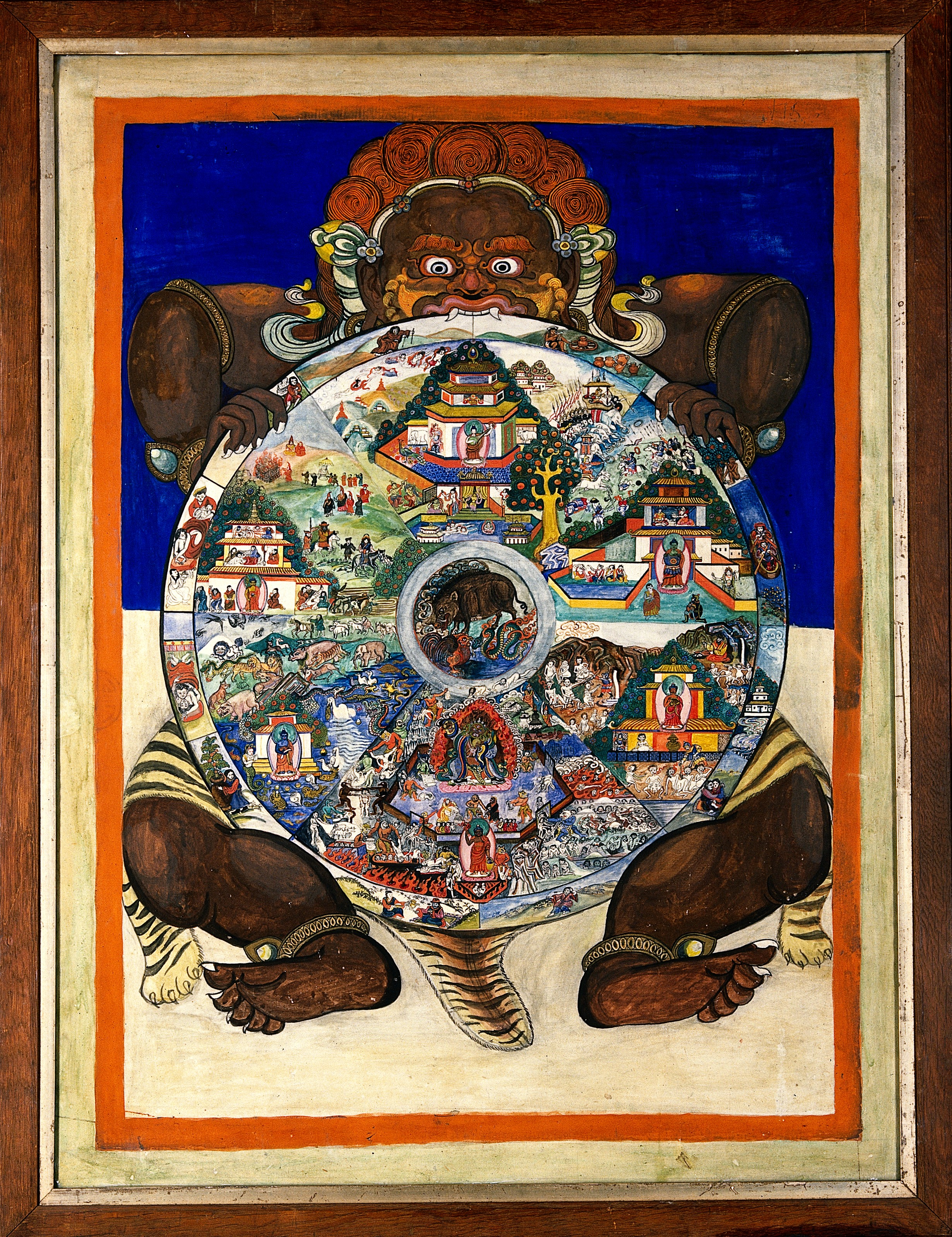 Yama, the Lord of Death, holding the Wheel of Life which represents Samsara, or the world on a Tibetan Thangka. In the central circle is a snake, a pig and rooster which represents craving, hatred and ignorance. The six sections, surrounding the central circle, show representations of the six realms - the realm of the gods, the realm of the titans, the realm of the humans, the realm of the animals, the realm of the hungry ghosts and the realm of the demons. Iconographic Collections Keywords: Rebirth; Animals; Tibet; Symbol; Allergy; Demon; Religion; Buddhism; China; Karma; Animal